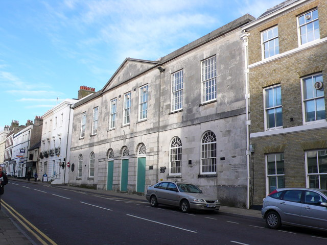 Shire Hall, High West St, Dorchester This is where the old Crown Court used to sit and it was from here in 1834 that the Tolpuddle Martyrs were transported to Australia for illegal meetings. They had tried to form a trade union. On one very old map this is marked as County Hall but now County Hall is a 20thC building built behind here.